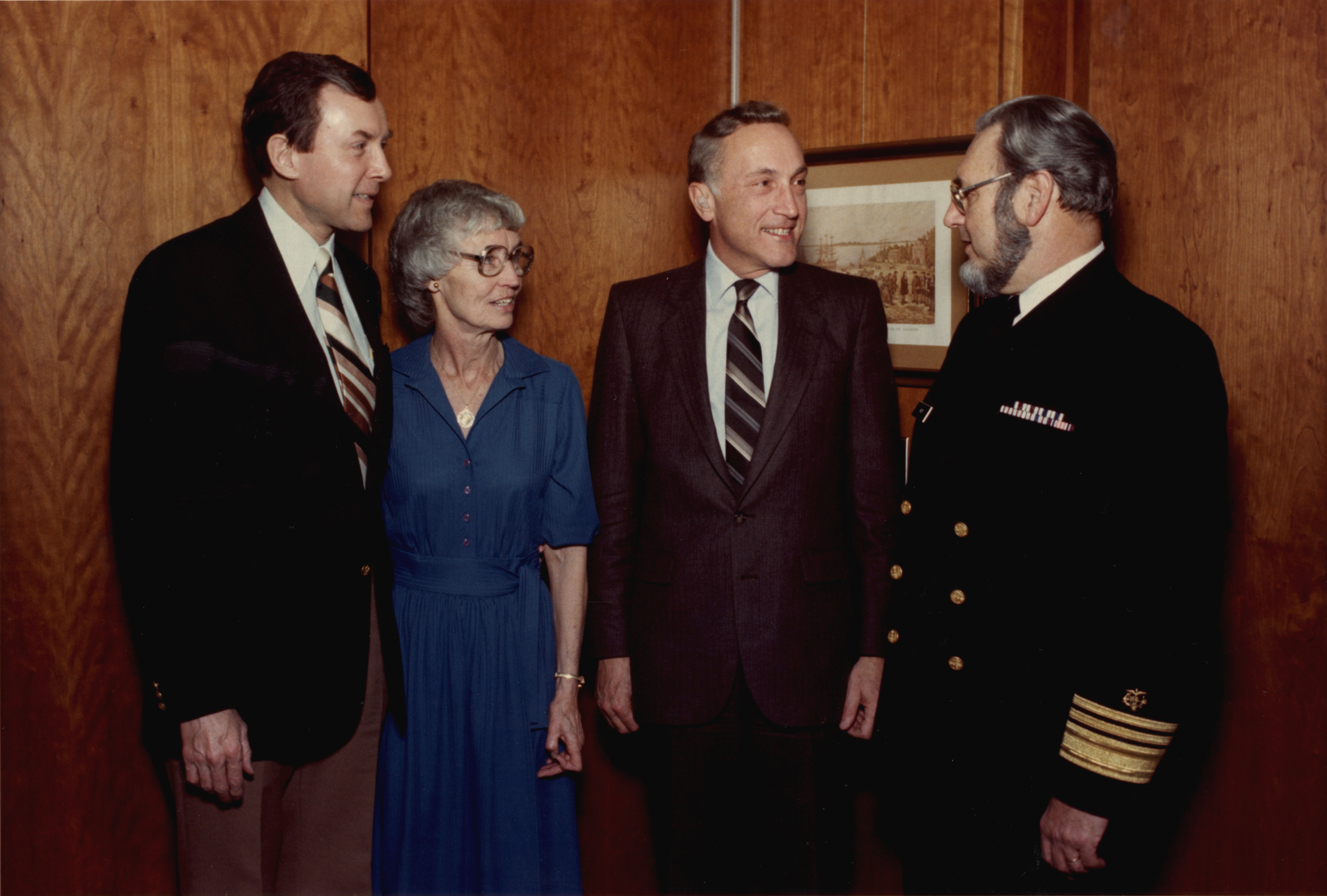 Taken on the day of his confirmation as U.S. Surgeon General, this photograph shows Dr. Koop with his wife Betty [Elizabeth "Betty" Flanagan]; his main sponsor in the U.S. Senate, Orrin Hatch of Utah (far left); and Secretary of Health and Human Services Richard Schweiker.